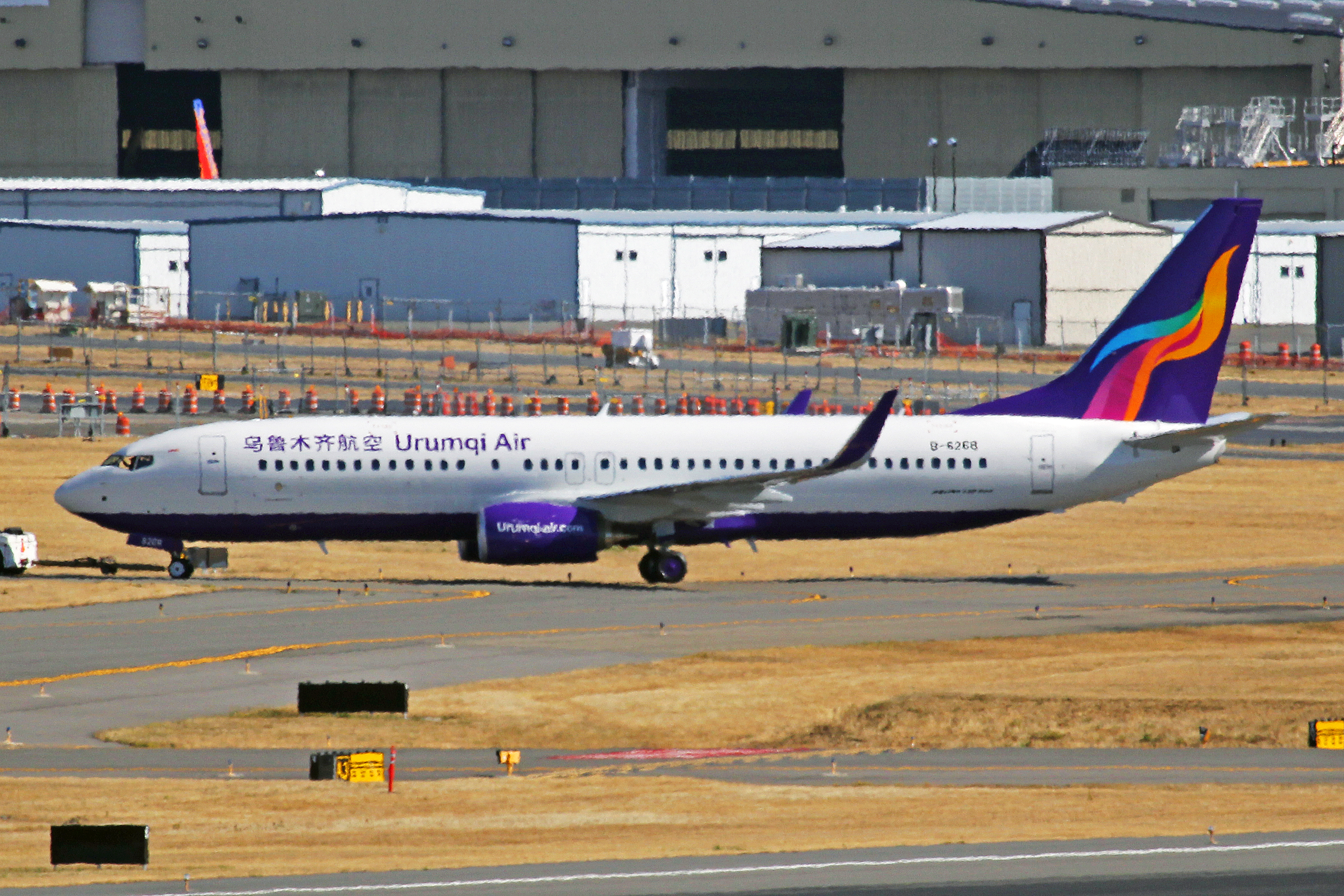 B-6268 Boeing 737-8LPW Urumqi Air(ex N482AG) PAE 28JUL15